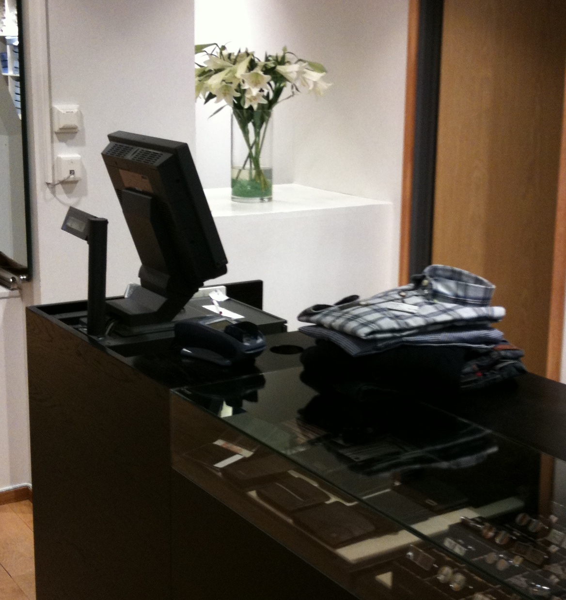 Picture of Bogart, a clothing store in Norway,and their RFID system. Shows several clothes beeing registered at the same time using the RFID tag.